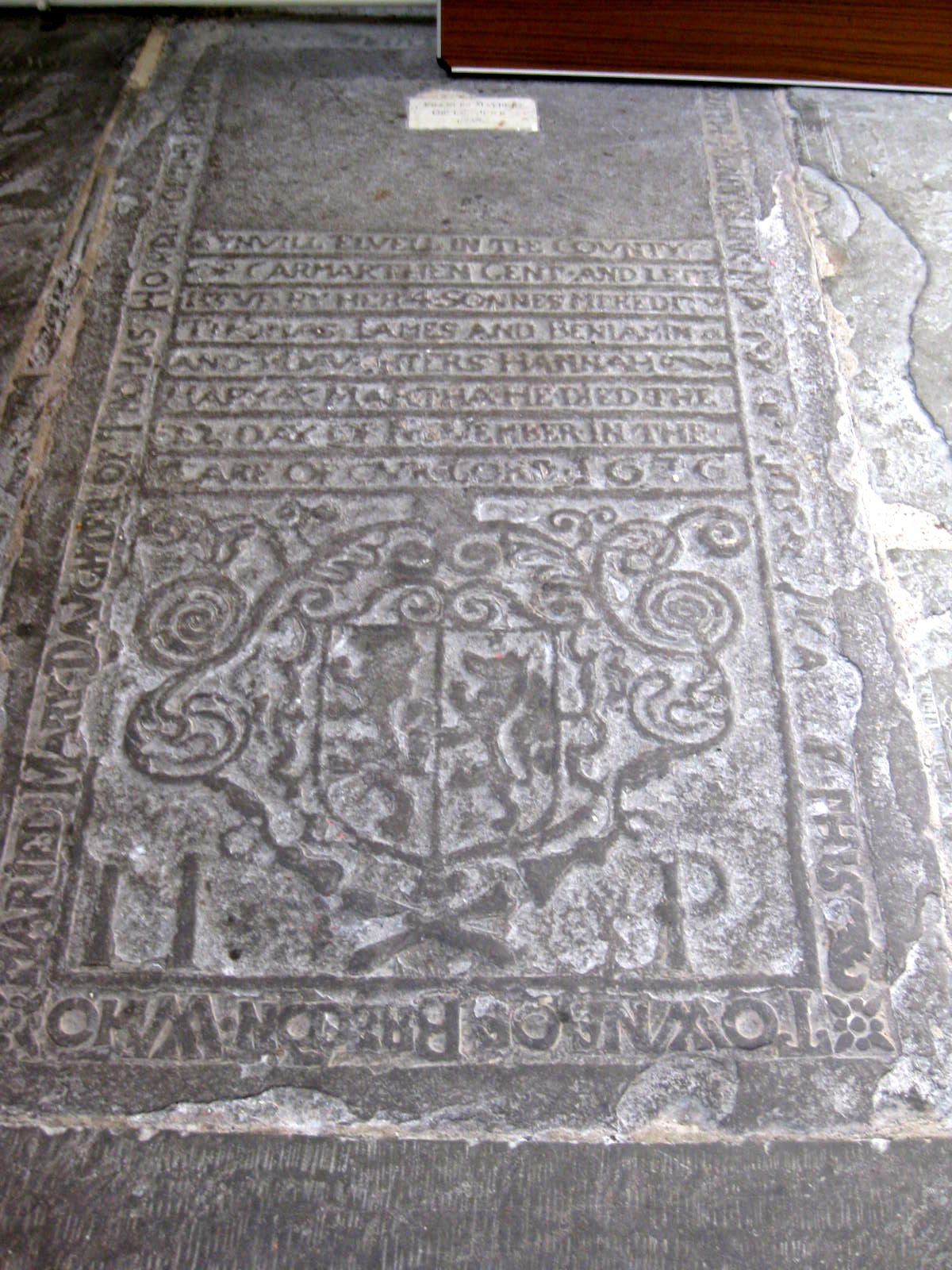 1676 Ledger Slab in Brecon Cathedral. The slabs appears to be slate, with cameo lettering in cartouches.